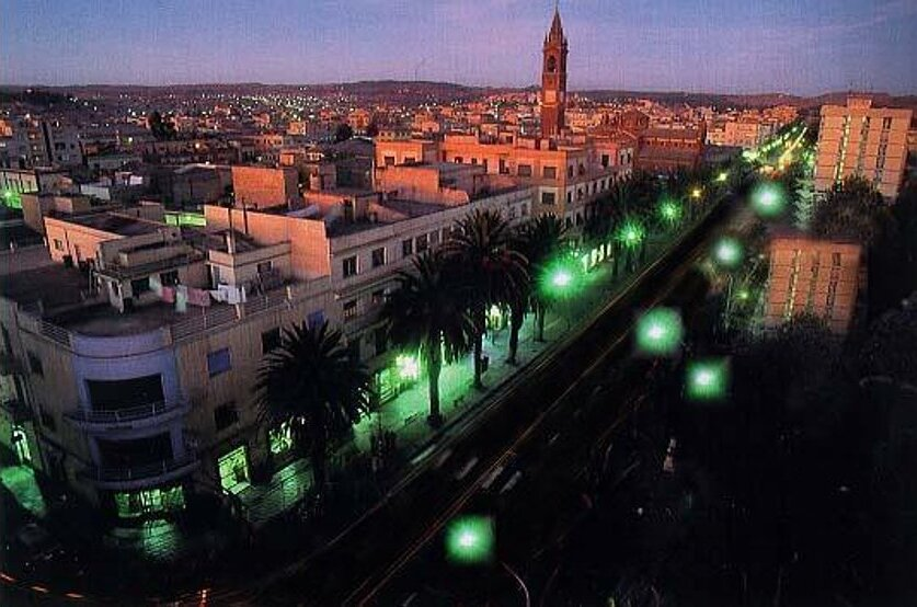 Panorama of Asmara, Eritrea at night, with the bell tower of the Church of Our Lady of the Rosary.